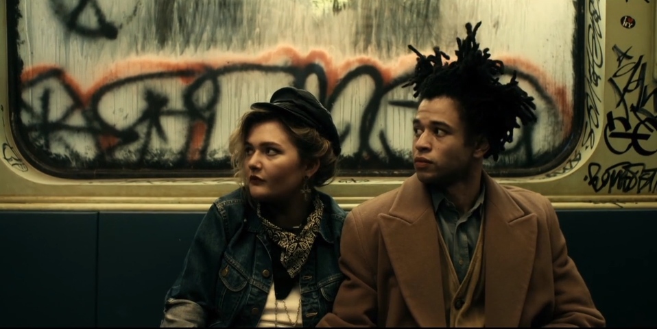 A screenshoot provided by director of Madonna & Basquiat in his official Vimeo channel under license CC BY 3.0. This serie was released in 2019 by ShowTime.